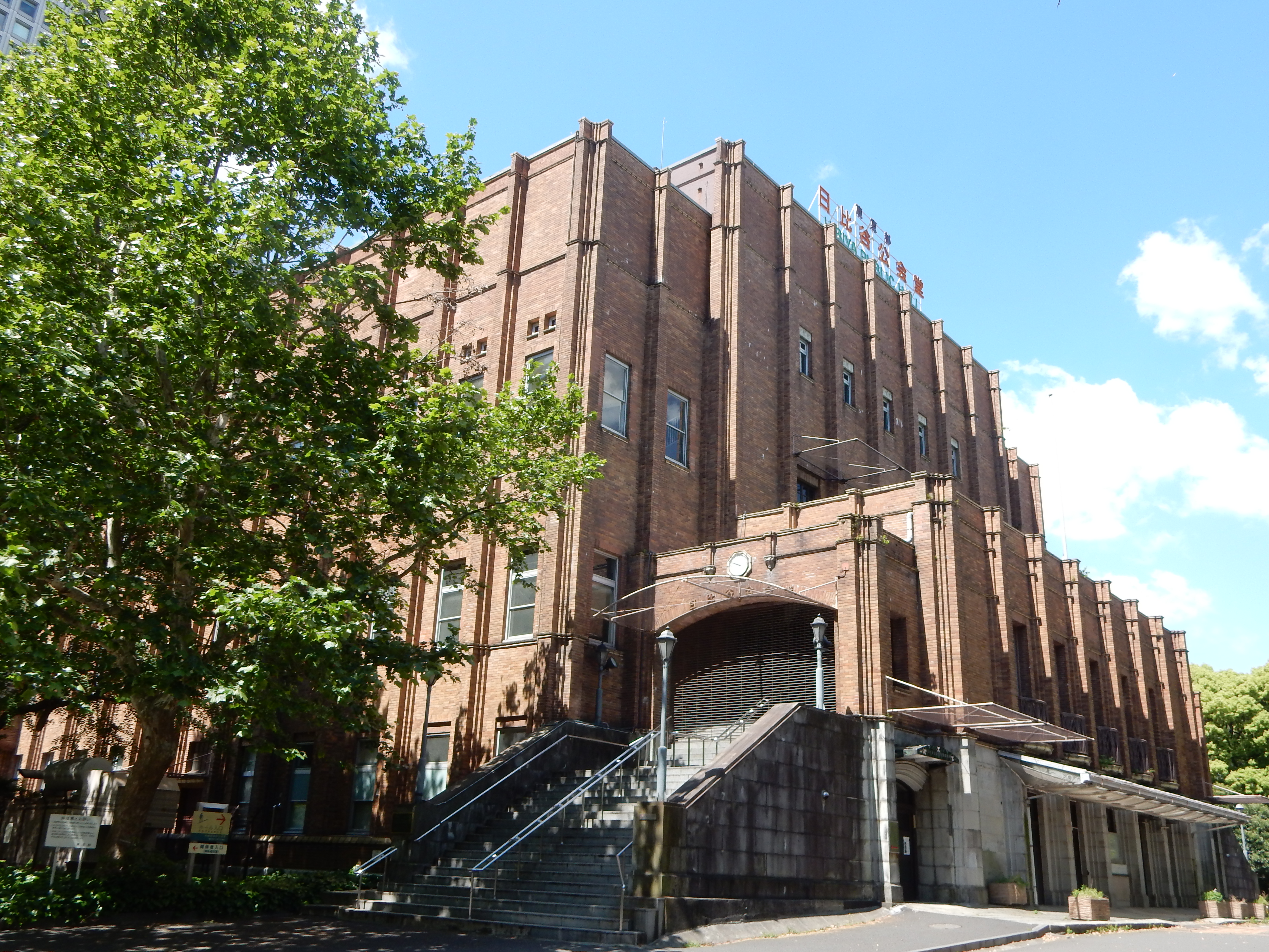 Hibiya Public Hall (日比谷公会堂), located at 1-3 Hibiya Kōen, Chiyoda, Tokyo, Japan